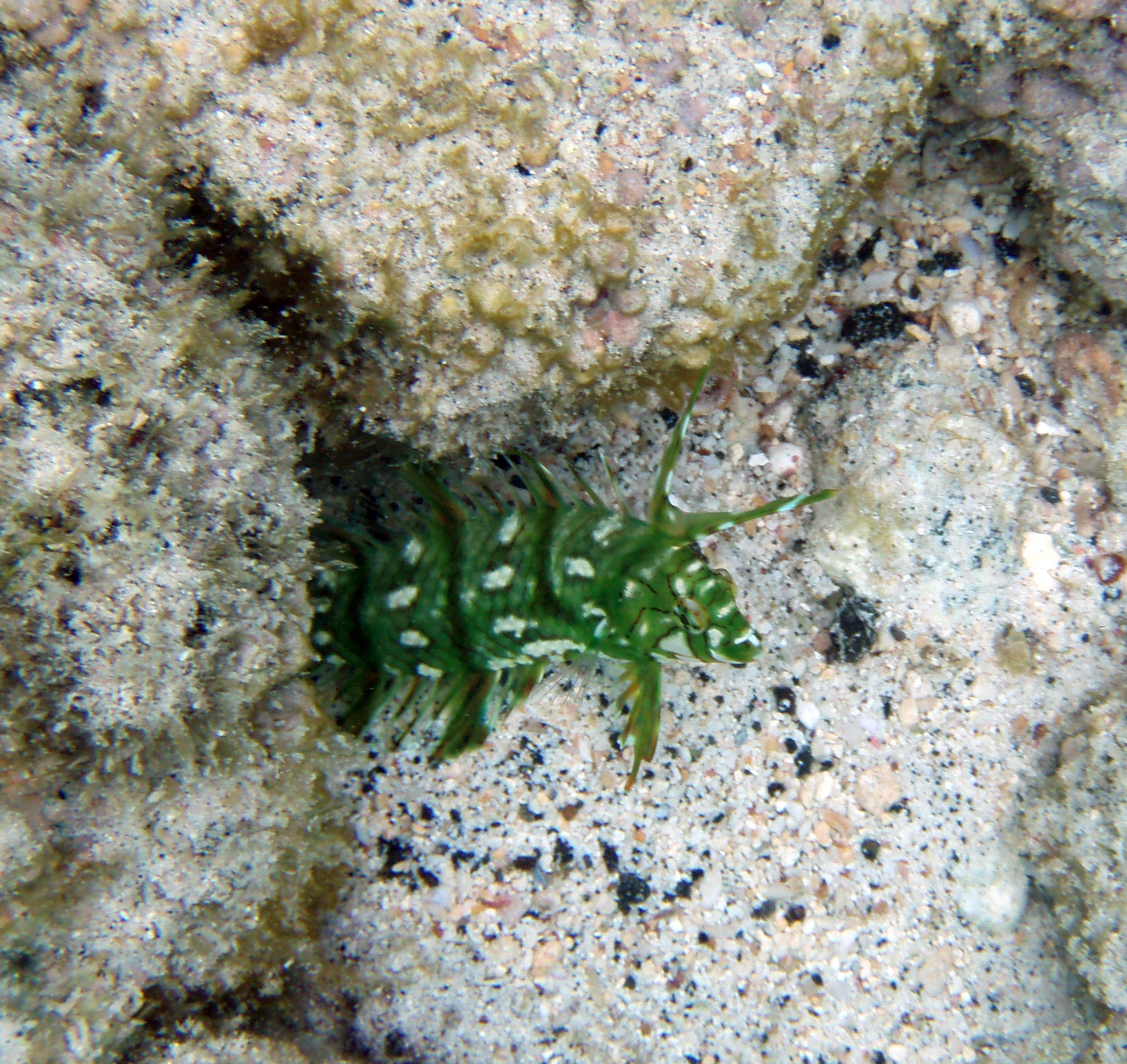 Juvenile rockmover, Novaculichthys taeniourus in Kona